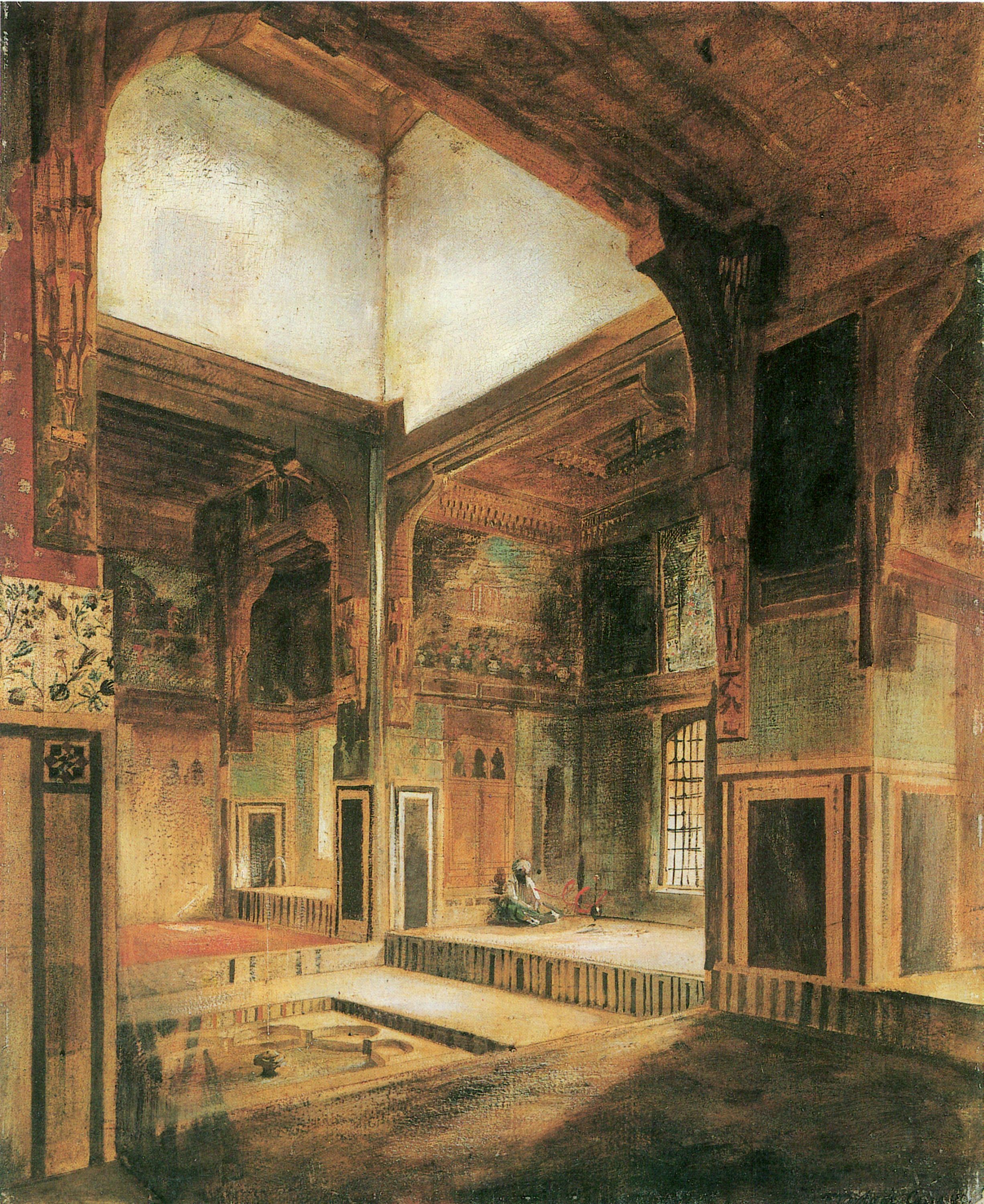 Interior of a Palace in Kairo